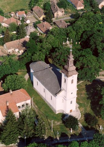 Pincehely, Hungary, aerialphotography.